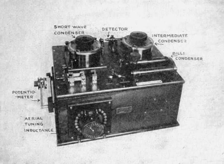 Marconi type 103 crystal radio receiver, used with the Marconi company's spark transmitter systems during the pioneering wireless telegraphy era of radio around 1920. The cat's whisker detector is visible at top. This radio used an inductively-coupled antenna transformer circuit, which improved the selectivity (Q factor) of the receiver, allowing interfering stations near the desired station to be rejected. The "short wave condenser" tuned the primary coil, the "intermediate condenser" tuned the secondary. The "aerial tuning inductance" knob selected taps on the coil winding to adjust the impedance match between the antenna and the receiver. The "Billi condenser" was a decoupling capacitor across the earphone leads, which smoothed the audio signal from the detector, removing the residual RF carrier pulses. The "potentiometer" applied an adjustable bias voltage from a battery across the detector, to make it more sensitive.